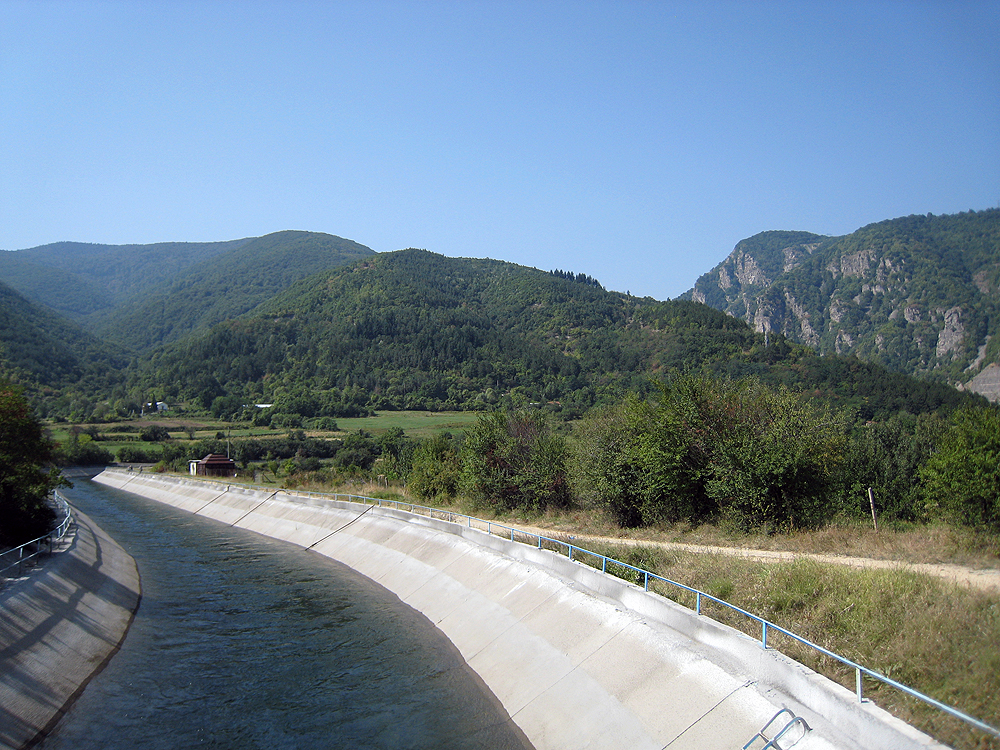 Water outlet from Belmeken-Chaira-Sestrimo Hydroelectric Power Plant cascade at Sestrimo